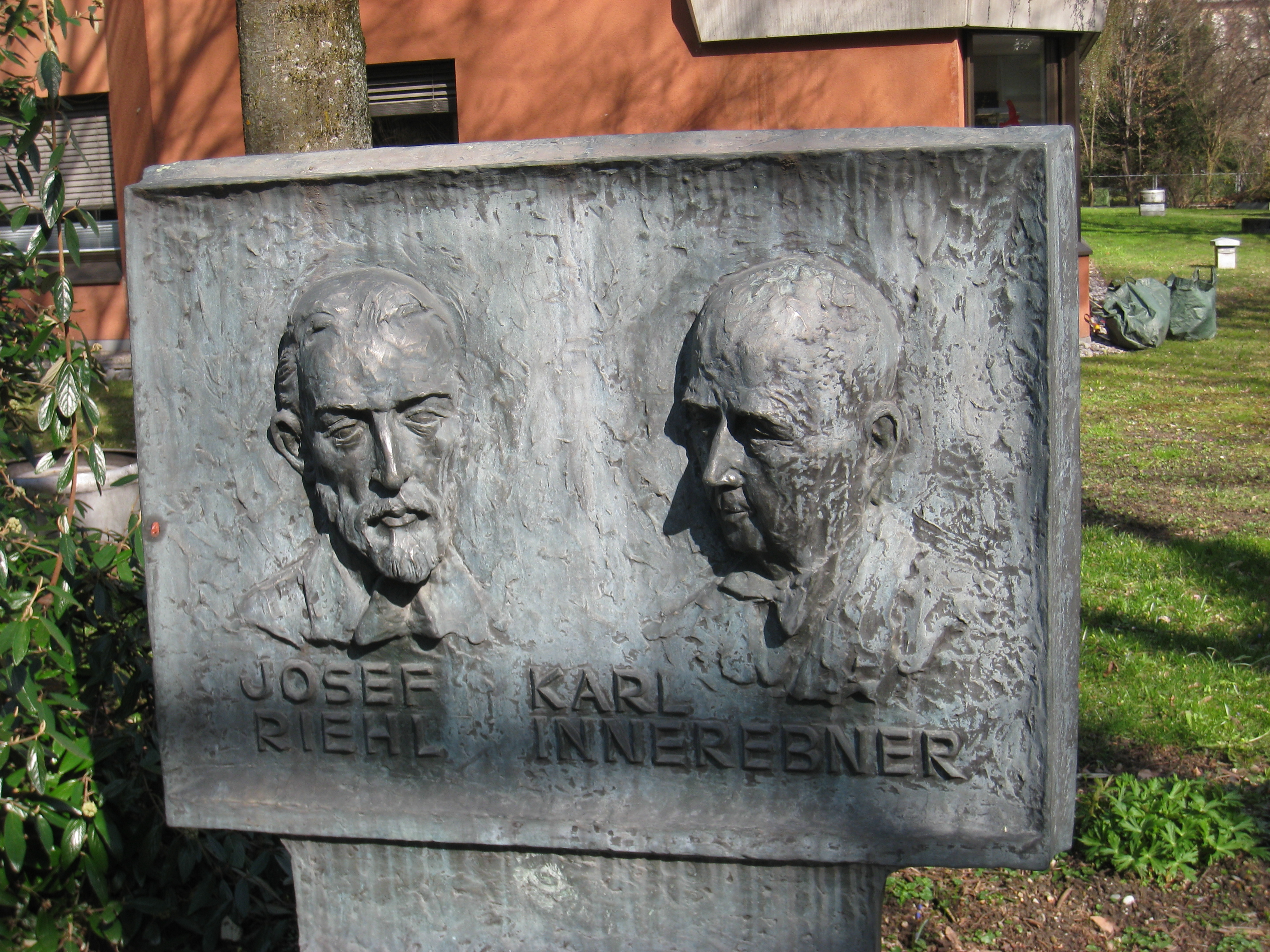 Innsbruck, Austria - monument to engineers Josef Riehl and Karl Innerebner.